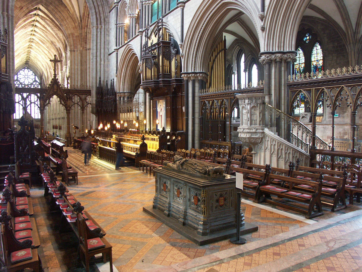 Worcester Cathedral, England